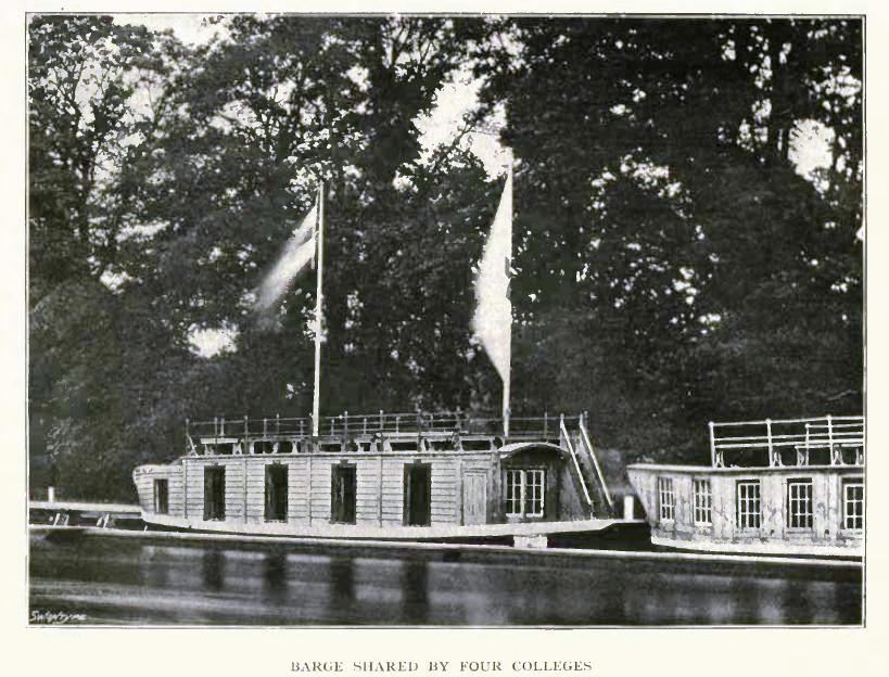 One of the barges on the Thames at Oxford used by college rowing crews. This barge was shared by Jesus, New, St John's and Pembroke Colleges after 1857 (Pembroke later being replaced by Merton College, who later were the sole users of the barge). The barge was divided into four small changing rooms, entry being by the windows. Labels over the windows indicated the names of the colleges. See Sherwood's book at page 93 for more information